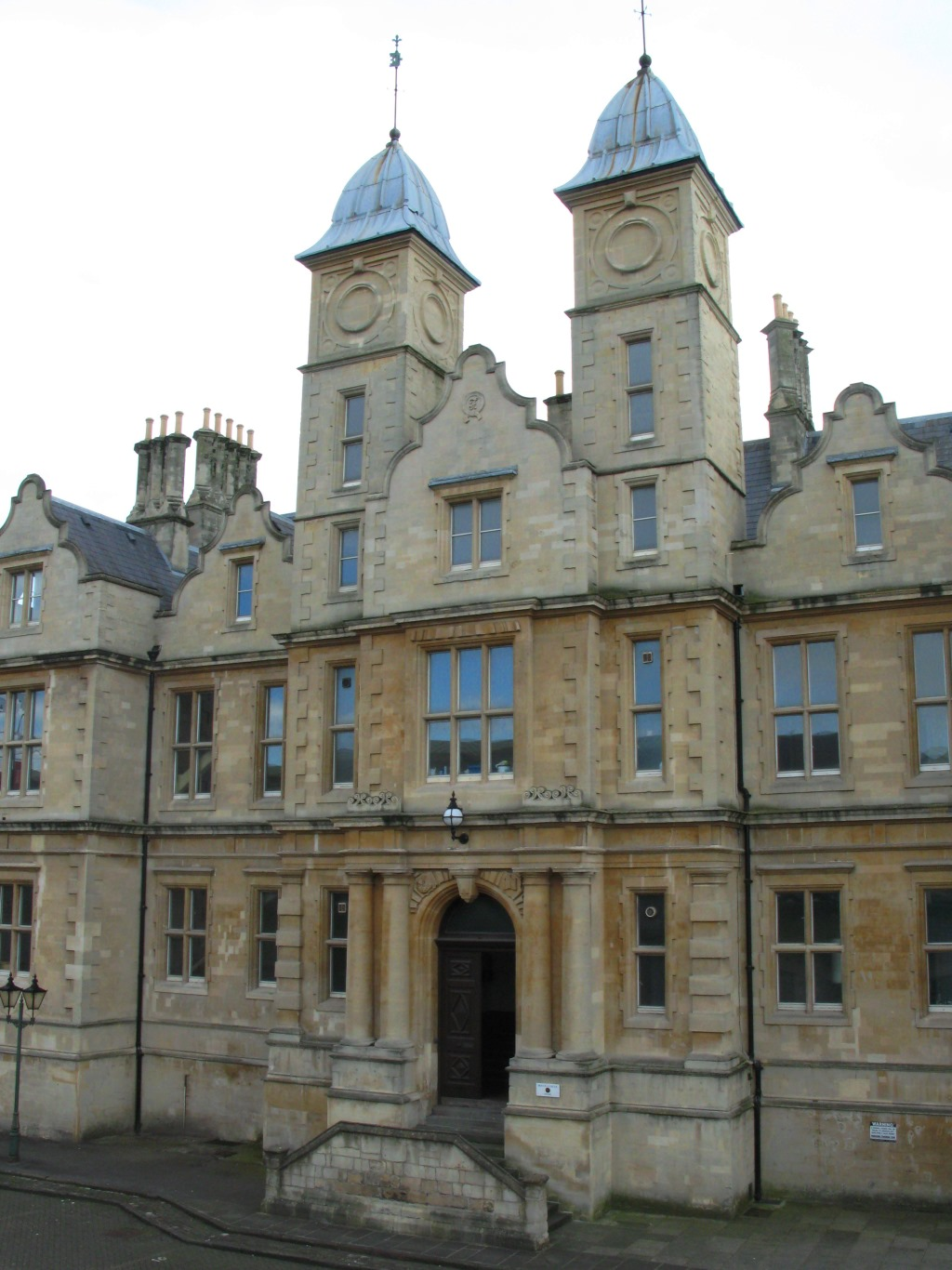 The main entrance to the former Bristol and Exeter Railway headquarters building at Temple Meads station, Bristol, England. Near the top of the facade the letter "F" is carved into the stonework, the initial of Samuel Fripp, the architect of the building.